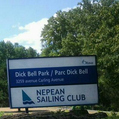 Nepean Sailing Club, Lac Deschenes, Dick Bell Park, Ottawa, Canada: Sign